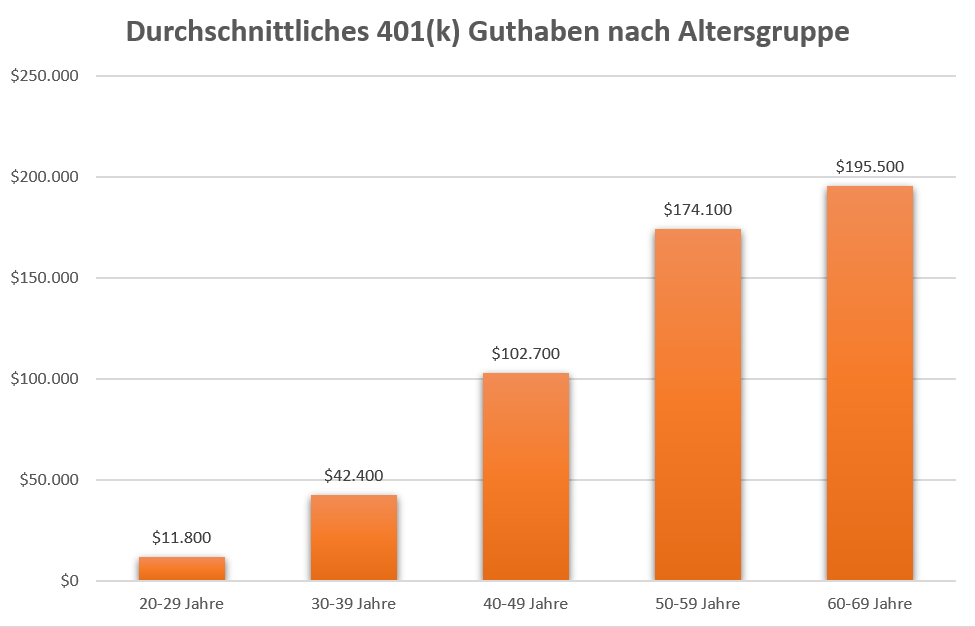 Average 401(k) savings by age (Fidelity customers), numbers from this article